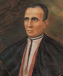 Portrait of venerated Joan Collell i Cuatrecasas, founder of the congregations of Servants of the Holy Hearth of Jesus